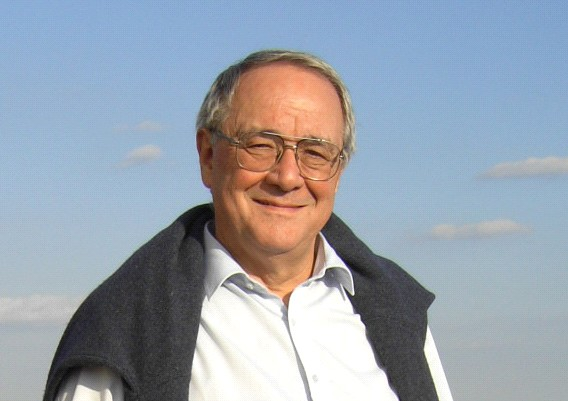 Portrait showing Krzysztof Wilmanski Krzysztof Wilmanski